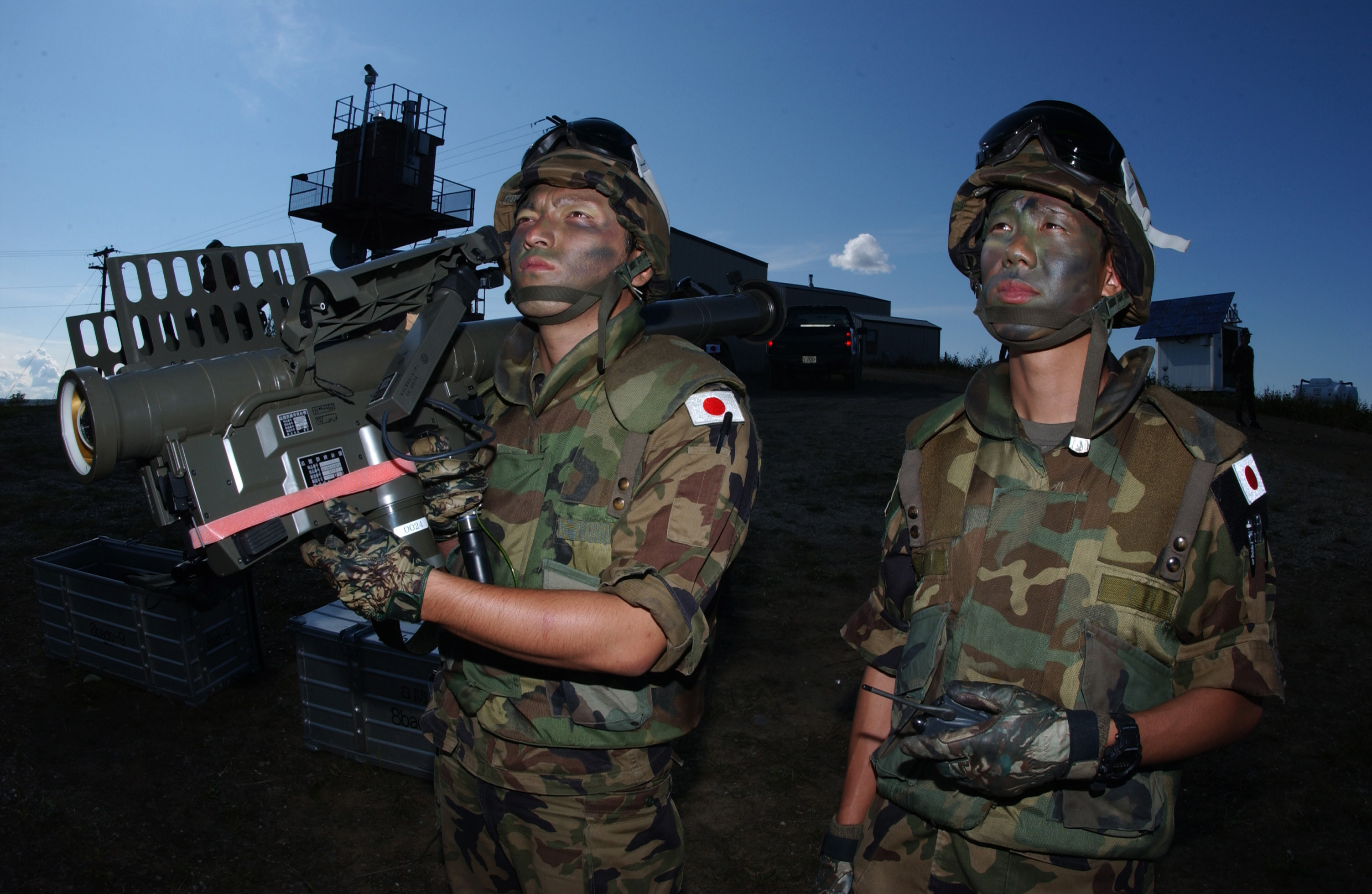 EIELSON AIR FORCE BASE, Alaska -- Staff Sgt. Kenichira Watanabe (Left), Staff Sgt. Kensuke Hamanishi (Right), missile operator, Japanese Air Self Defense Force, watches for enemy aircraft on the Pacific Alaskan Range Complex on July 24 during Red Flag-Alaska 07-3. With 67,000 square miles of rugged terrain, Japanese Forces are able to train tracking low flying aircrafts against a mountain back drop; this type of training is unavailable to them at their home station.